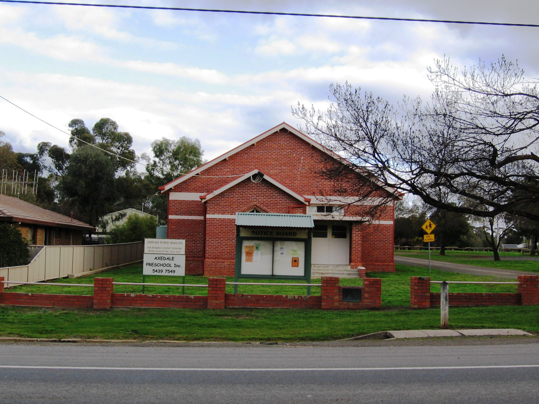 Public hall and pre-school in Axedale, Victoria